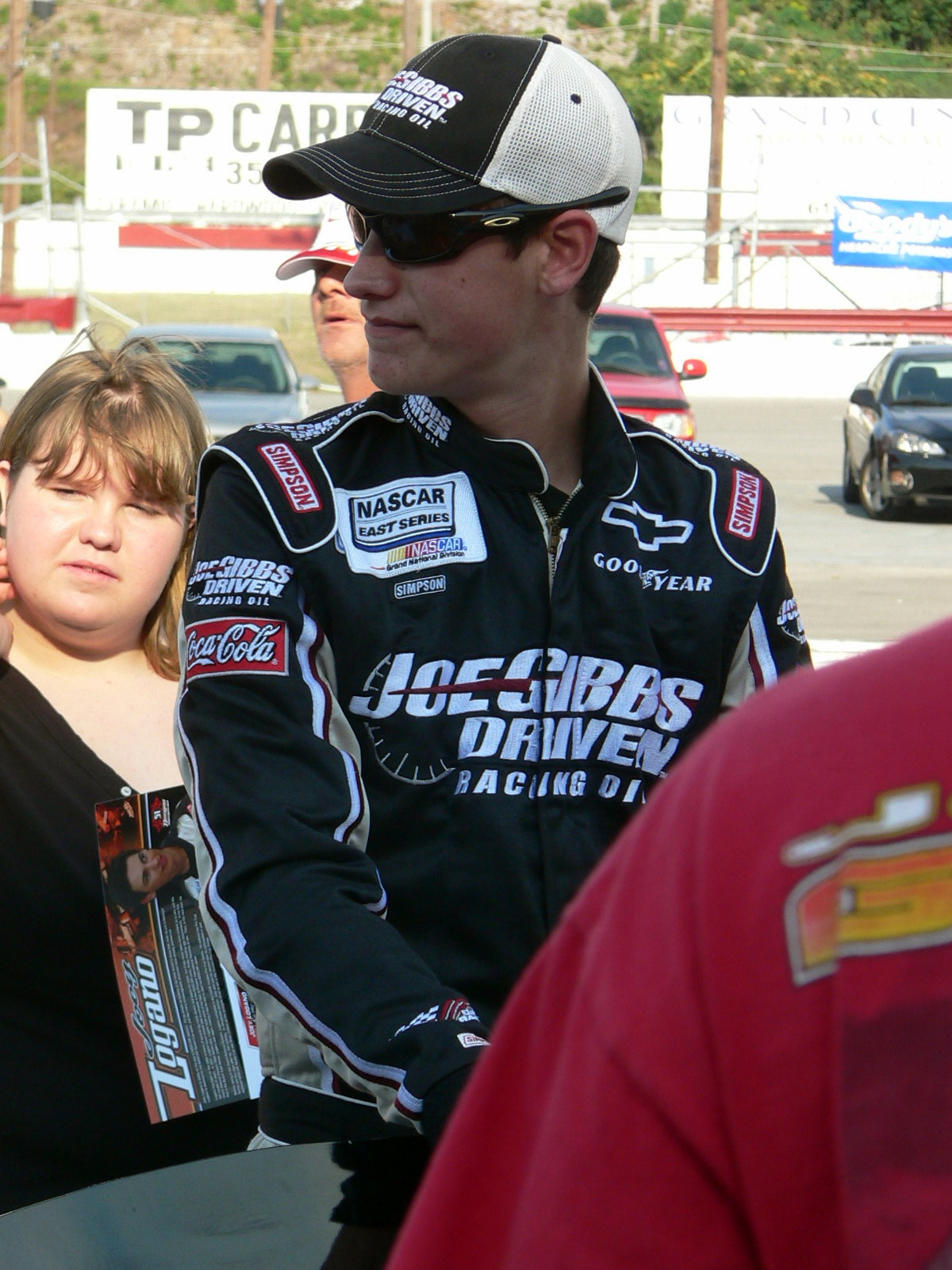 NASCAR Busch East Series (now Camping World East Series) driver Joey Logano at the Music City 150 in July 2007. Logano is a Joe Gibbs Racing developmental driver.